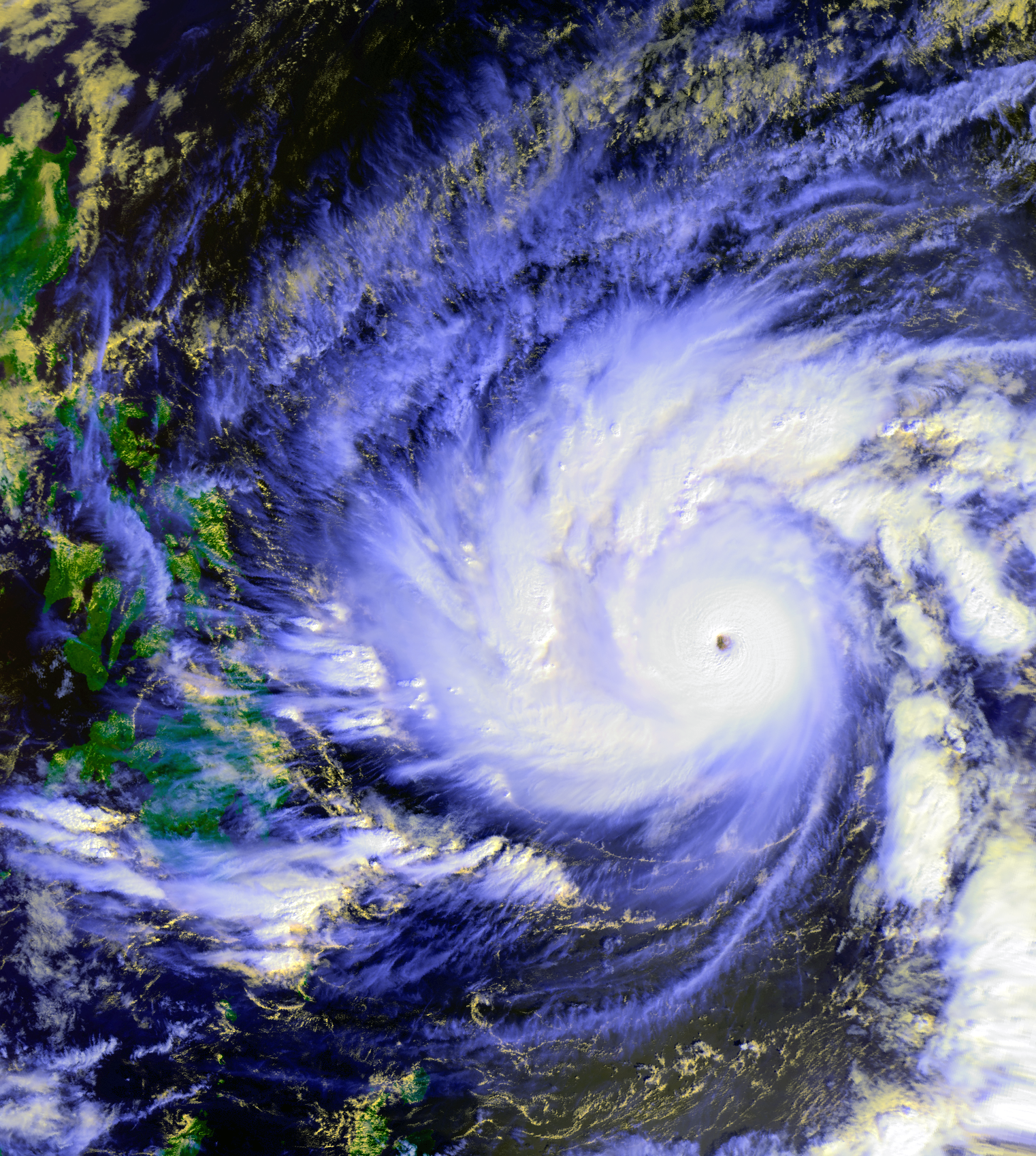 False colored image of Typhoon Hagupit on December 4, 2014.